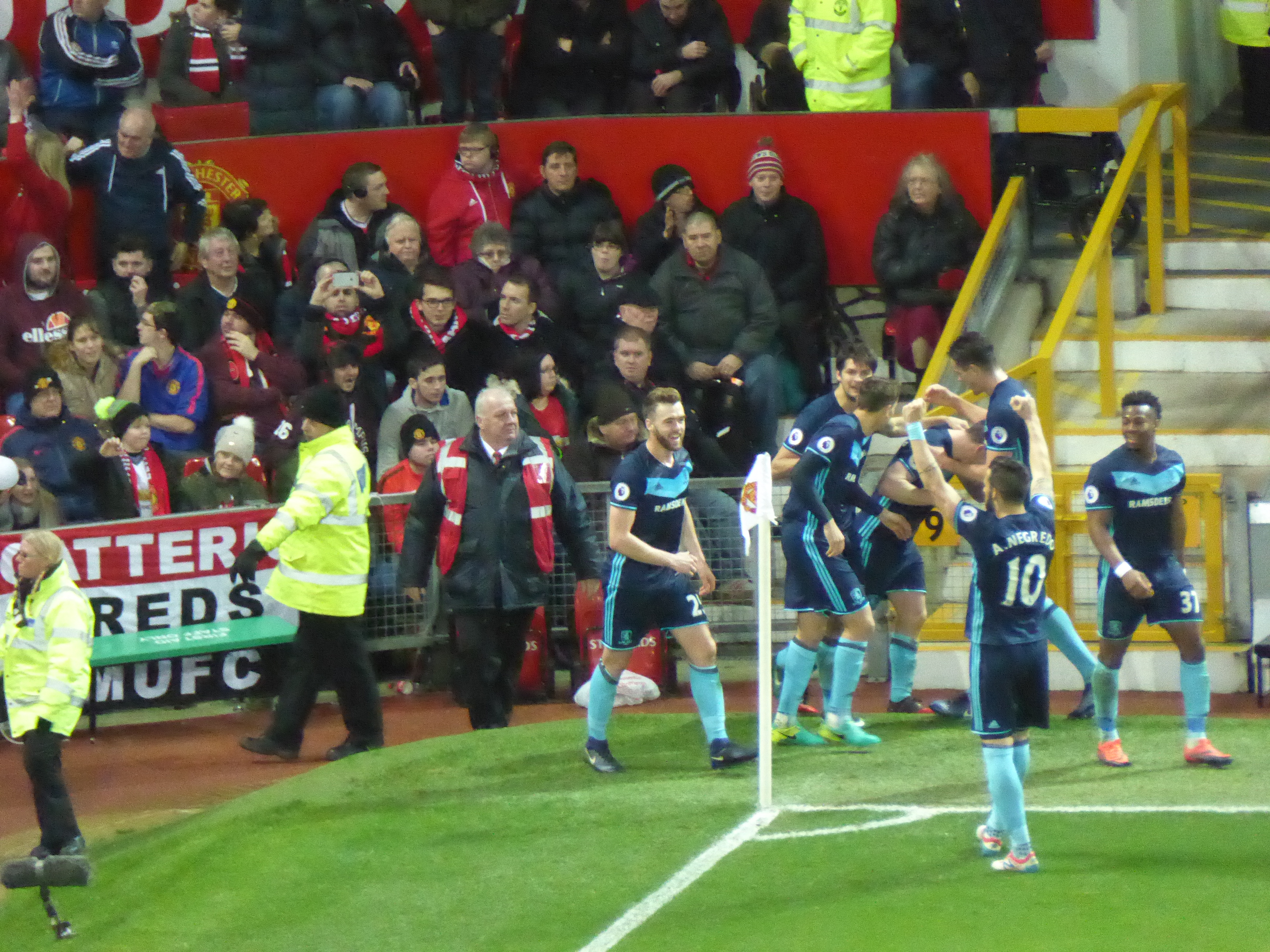 Manchester United v Middlesbrough (2-1), Premier League, Old Trafford, Manchester, Greater Manchester, England, December 2016